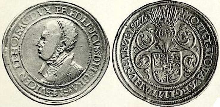 Husumer taler 1522